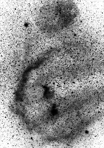 Above photo of Barnard's Loop nebula in inverted black and white of the red channel; the loop can be seen now better